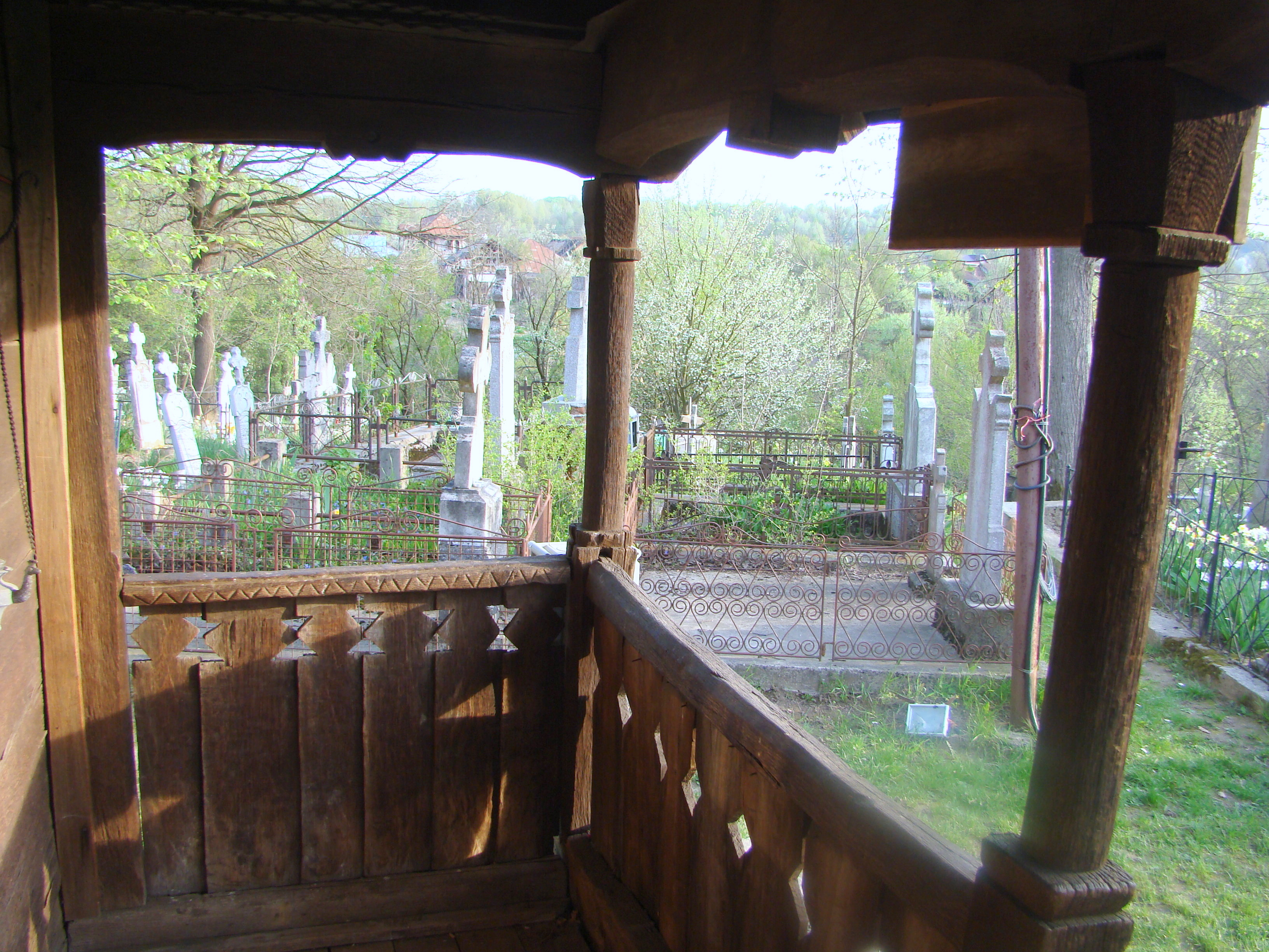 St. Basil's wooden church in Pieptani, Gorj county, Romania